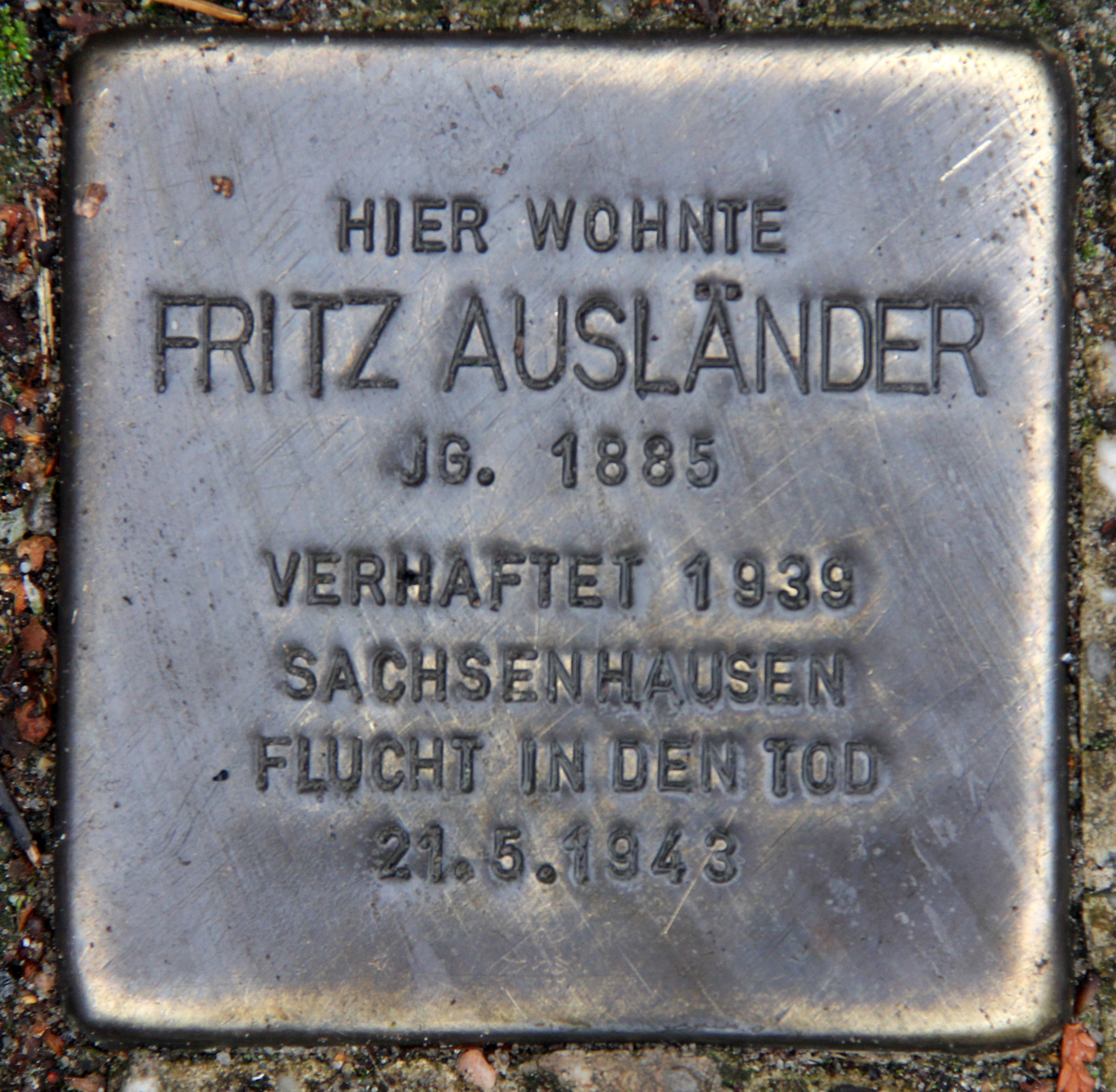 "Stolperstein" (stumbling block), Fritz Ausländer, Erholungsweg 14, Berlin-Tegel, Germany